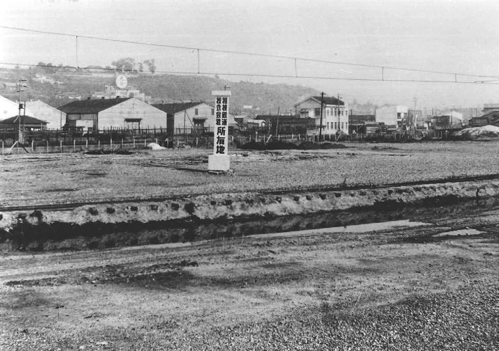 View of the East exit of Yokohama station around 1952.